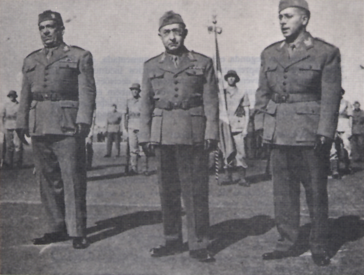 General Mascarenhas de Moraes flanked by generals Zenobio da Costa (right) and Cordeiro (left)